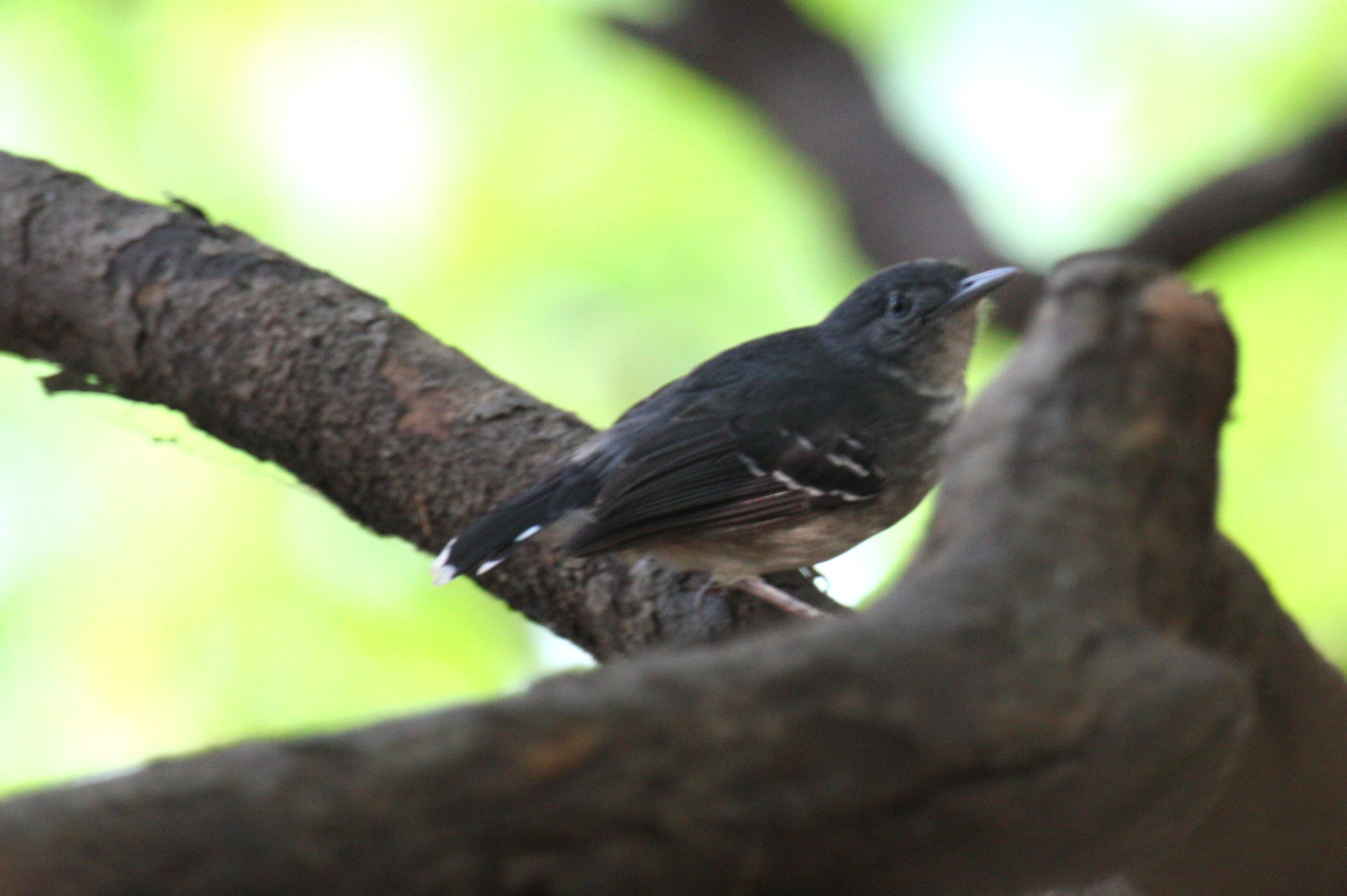 A Mato Grosso Antbird in Mato Grosso do Sul, Brazil.